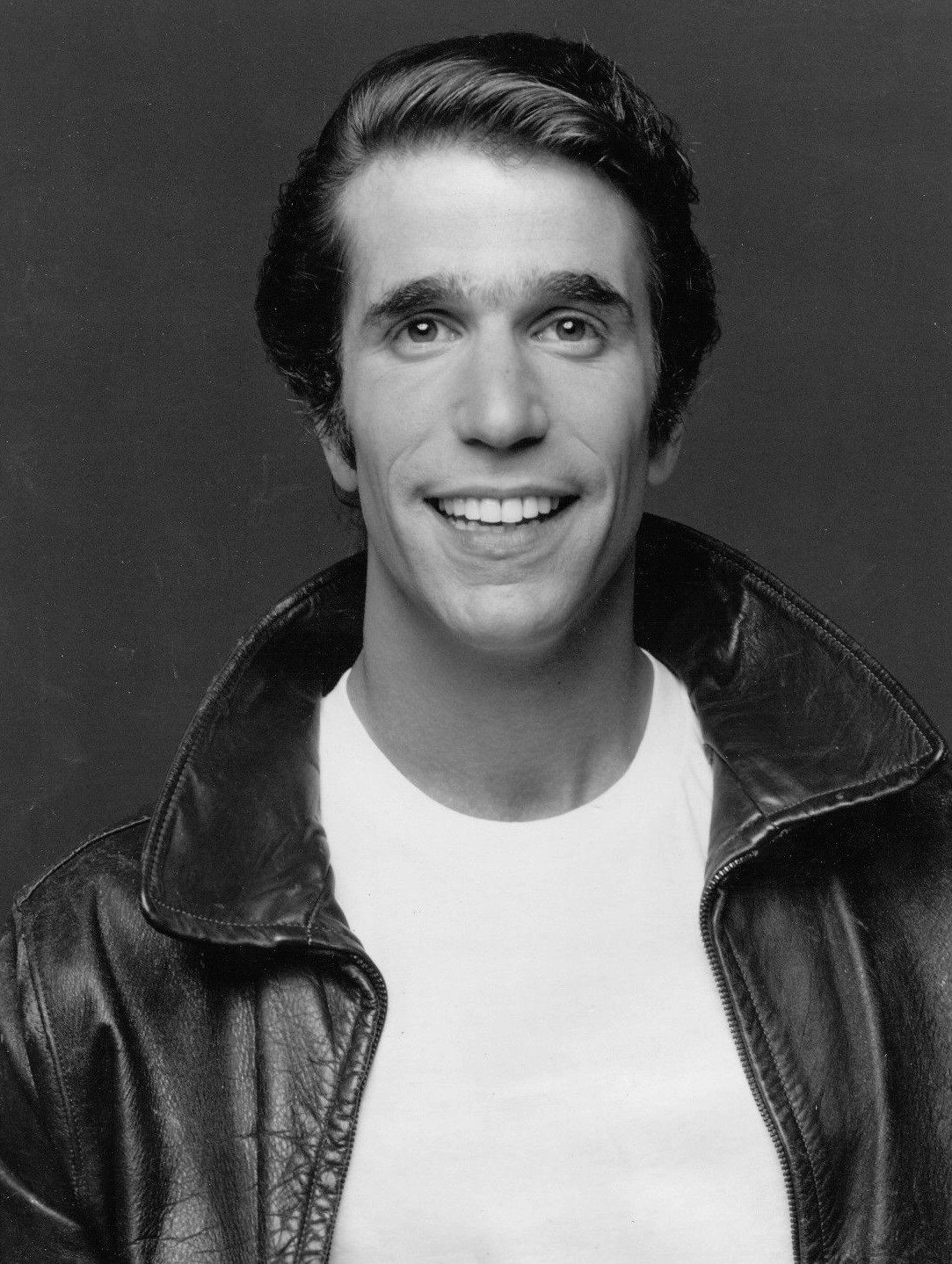 Photo of Henry Winkler as Fonzie.